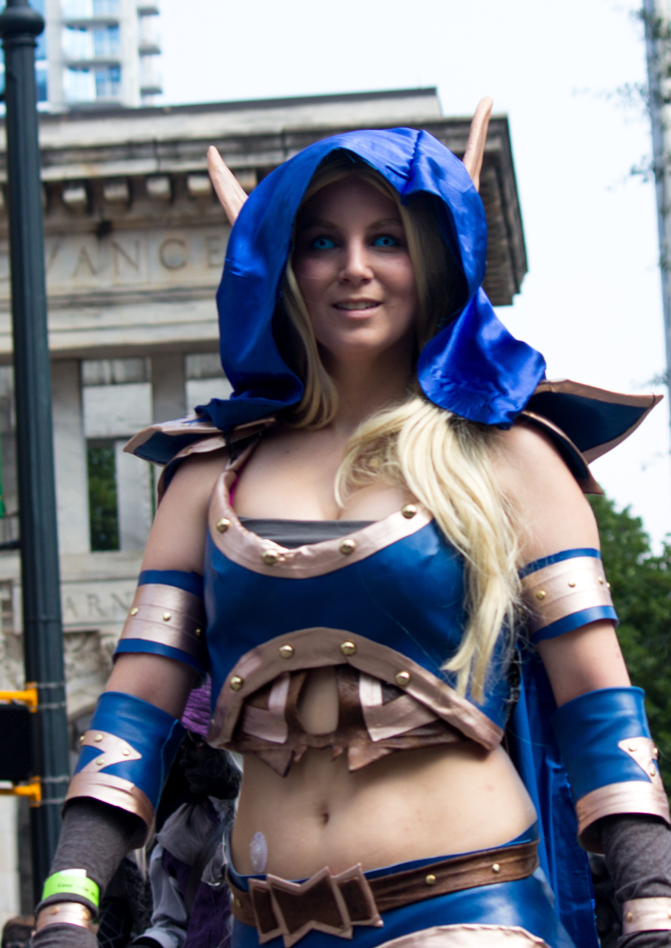 The 2013 Dragon*Con parade through Atlanta.